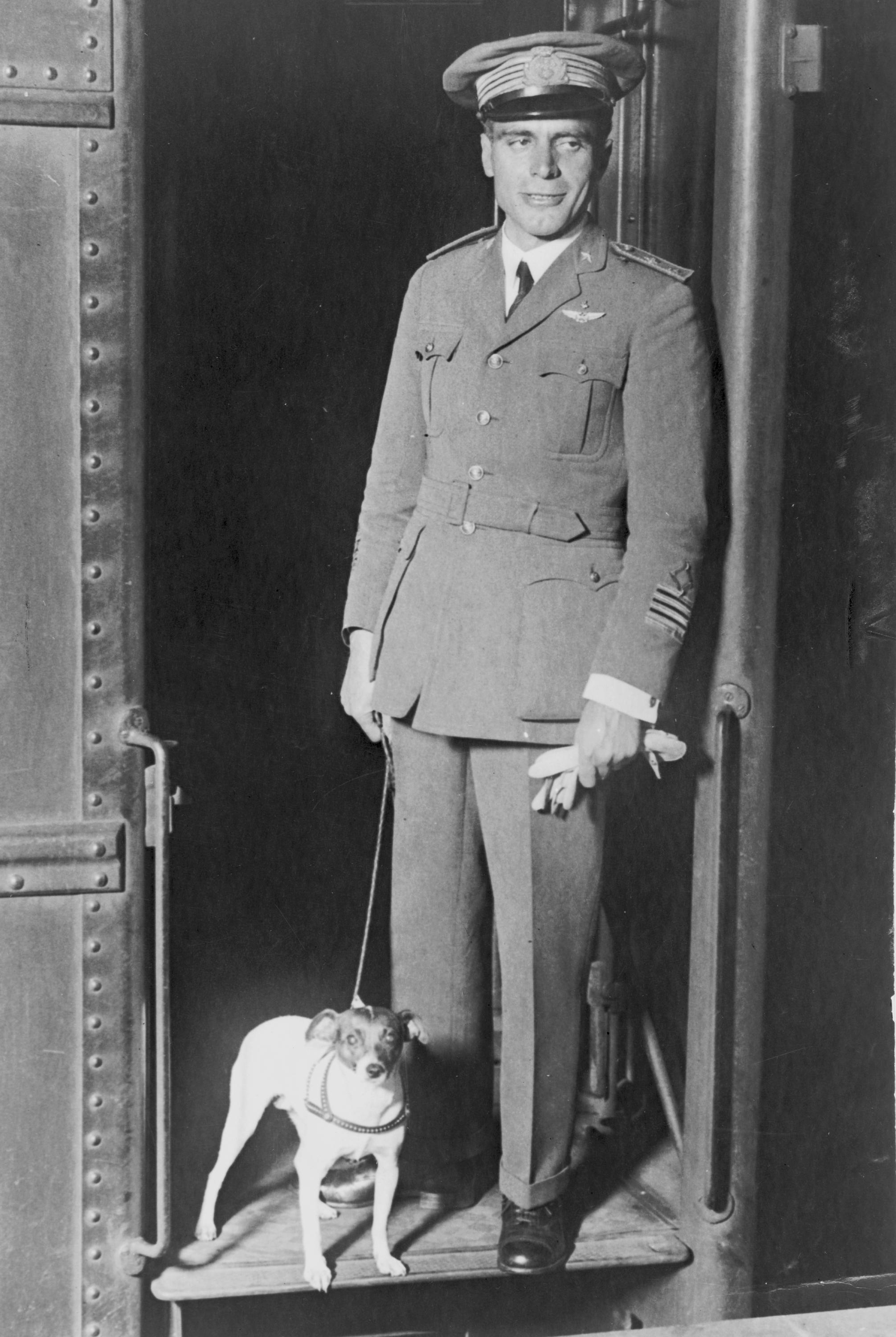 Umberto Nobile, full-length portrait, dressed in military uniform standing in a doorway with his dog, Titina